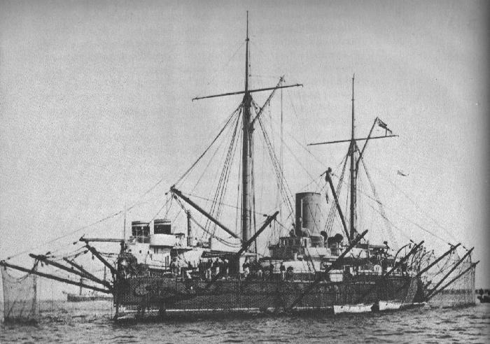 The British ironclad ram, HMS Hotspur with her anti-torpedo net deployed